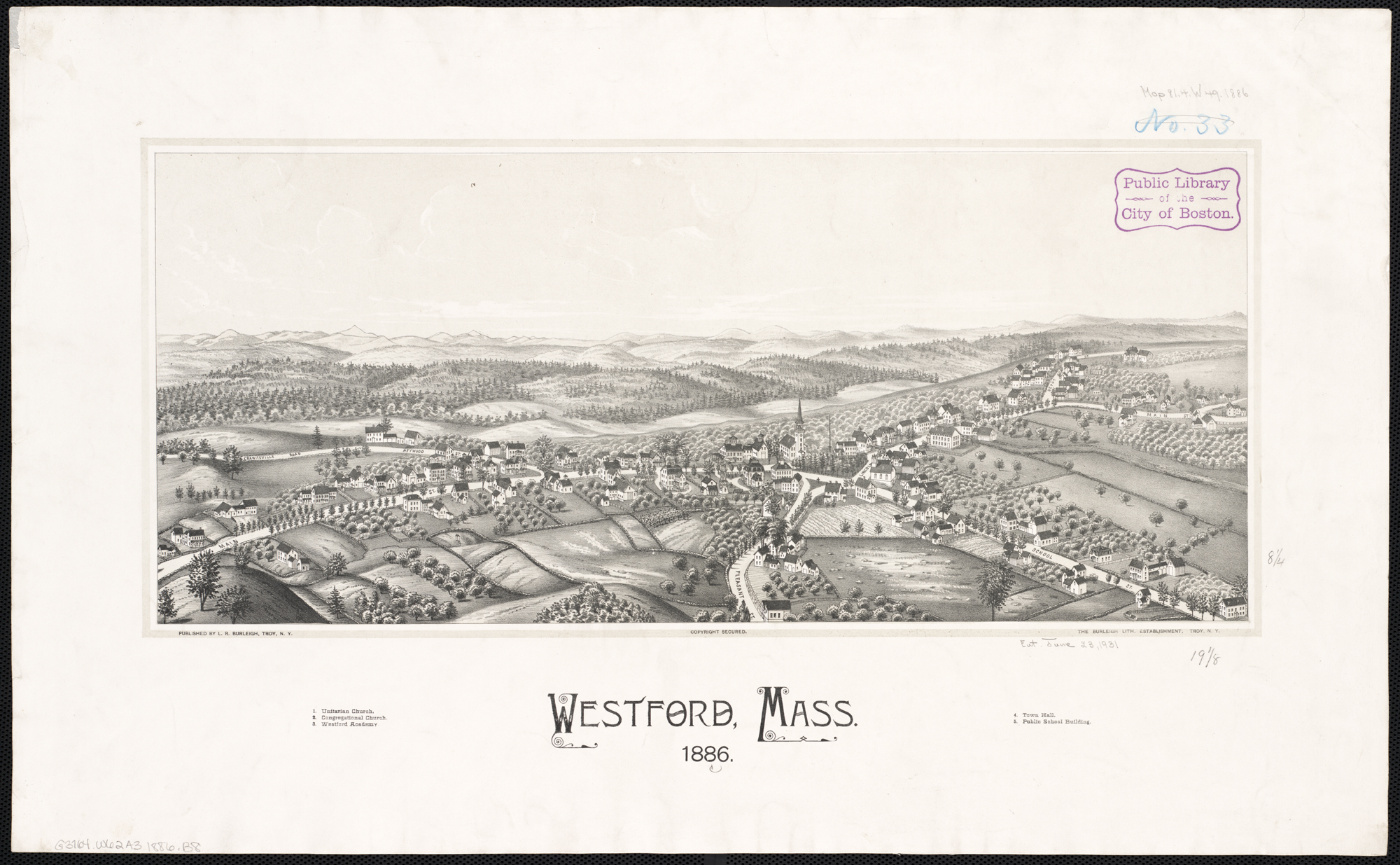 Zoom into this map at . Author: Burleigh, L. R. Publisher: L.R. Burleigh Date: [1886] Location: Westford (Mass.) Scale: Not drawn to scale. Call Number: G3764.W62A3 1886.B8